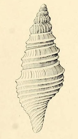 Microdrillia fastosa (Hedley, 1907) ; family Borsoniidae